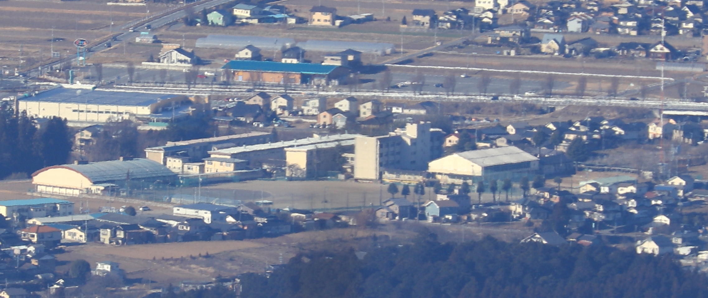 Nagano Prefectural Akaho High school seen from Mount Tokura in Komagane, Nagano Prefecture, Japan. Canon EOS Kiss X9